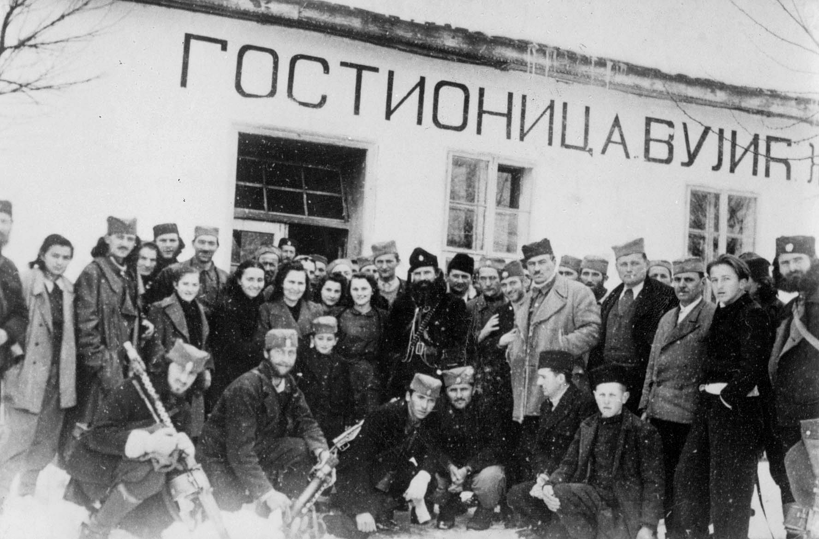 Chetniks